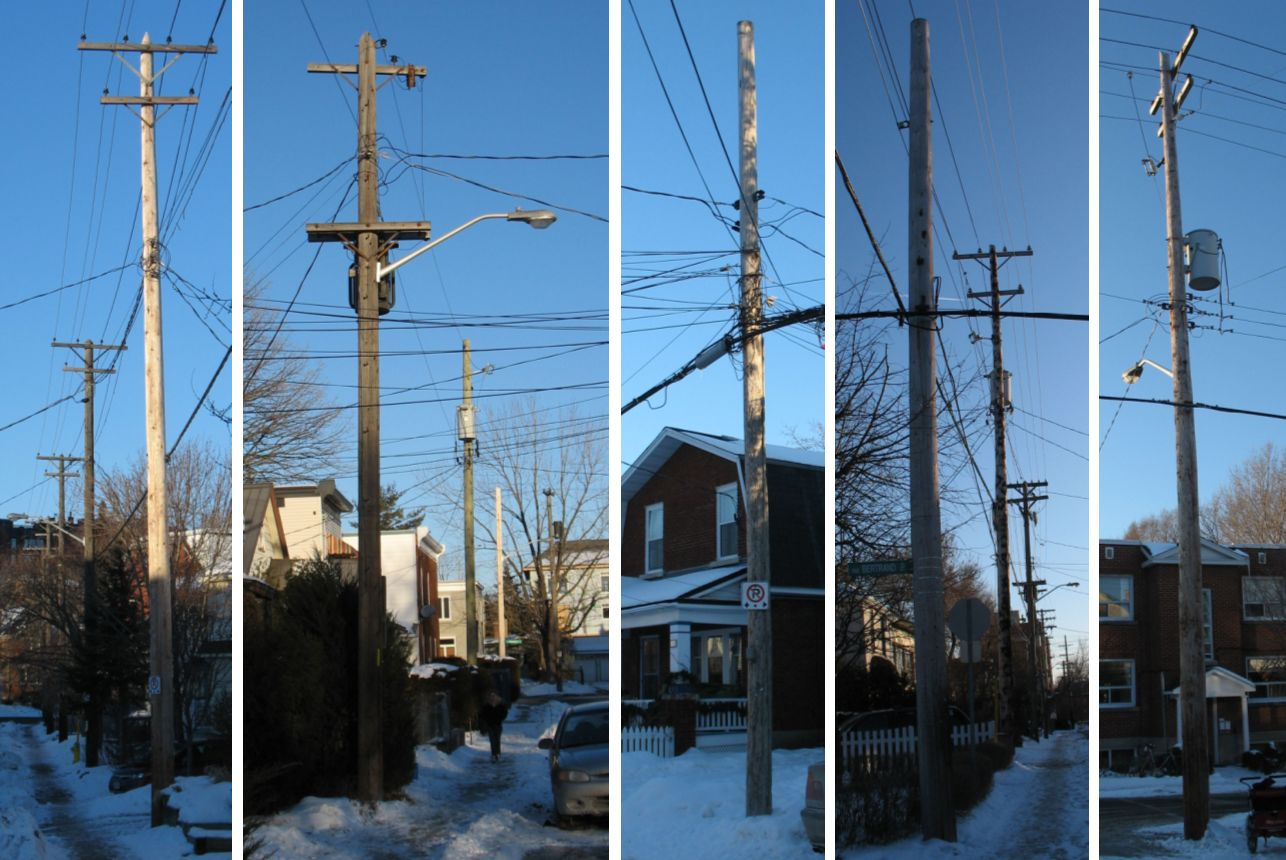 Collage of utility poles in New Edimburgh, Ottawa.